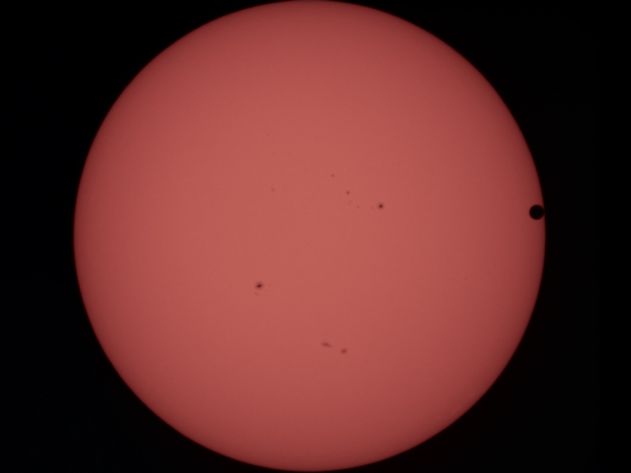 The Transit of Venus as seen from Kuwait City. This shows Venus very close to third contact. Picture taken with a Panasonic Lumix GF-1 camera attached to a standard Questar 3.5" telescope.